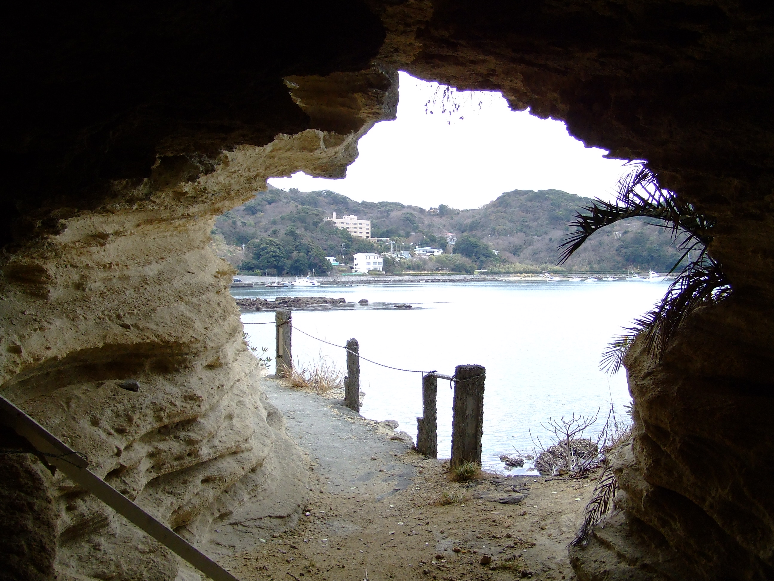 The cave in Shimoda, Shizuoka Prefecture, Japan, where Yoshida Shoin hid before trying to board one of Perry's black ships. I took this photo with a digital camera on 24th February 2007.